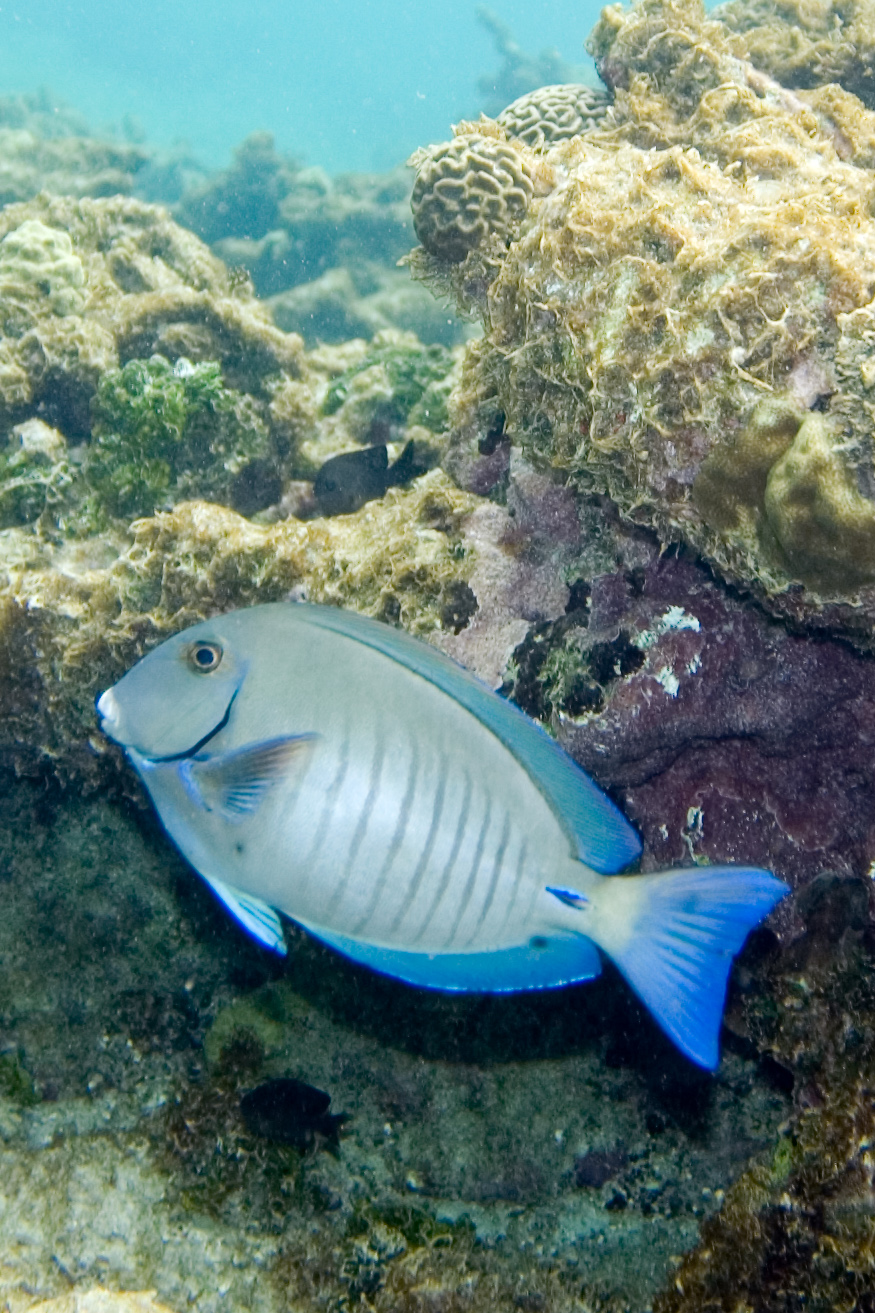 doctorfish Acanthurus chirurgus